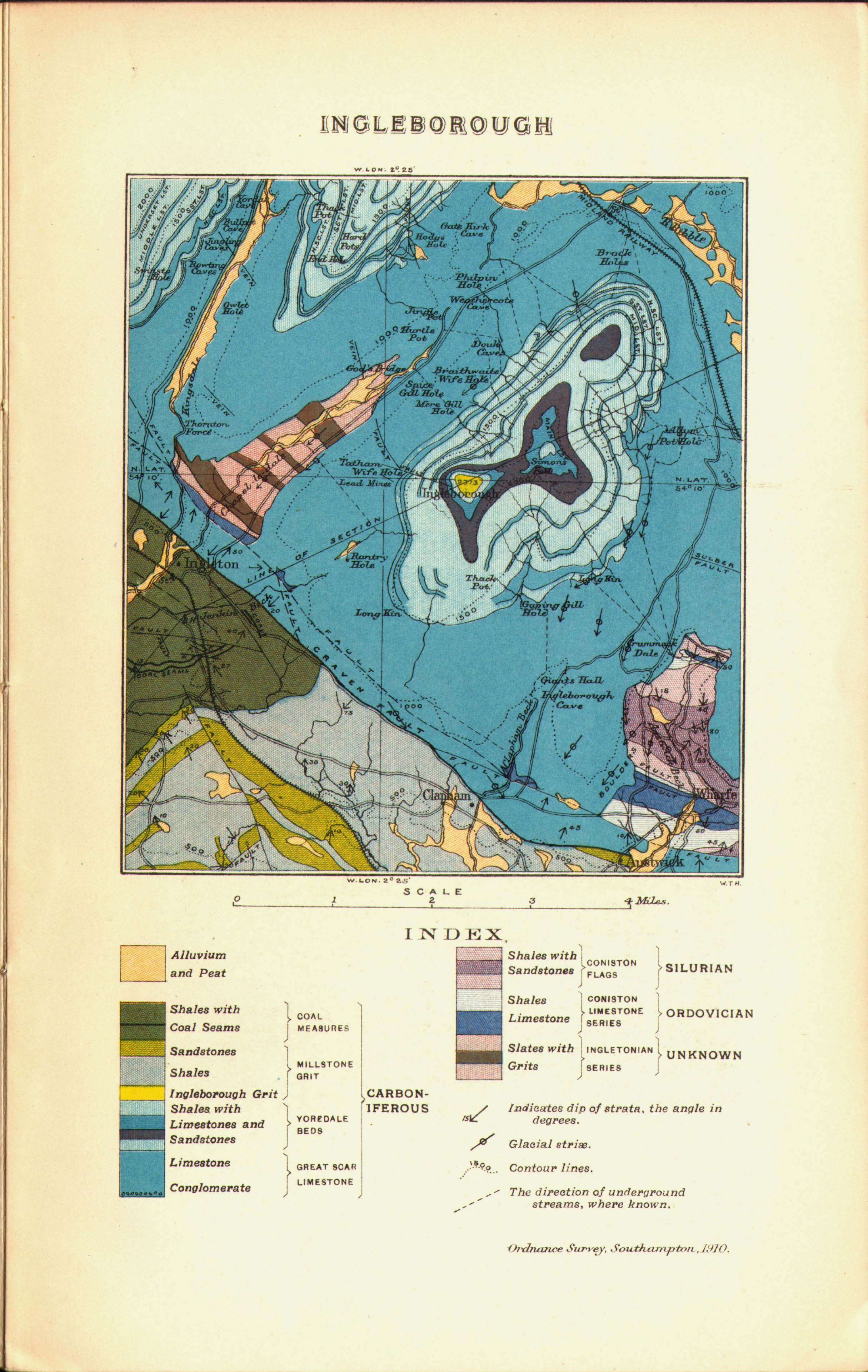 Geological Map of Ingleborough. From Guide to the Geological Model of Ingleborough and District